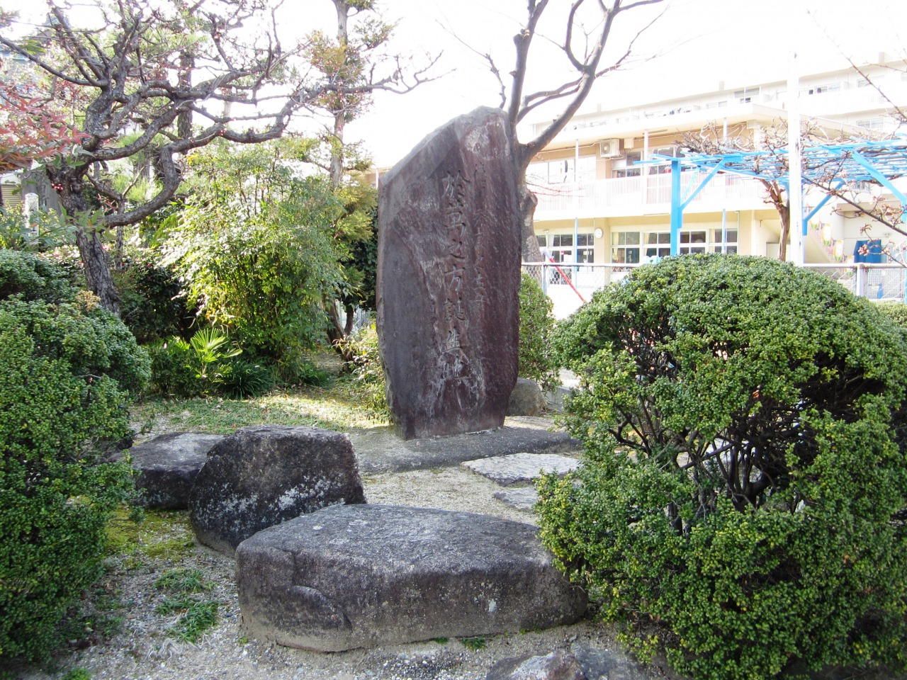 The birthplace of Omannokata, Yūki Hideyasu's mother, in Chiryū, Aichi.